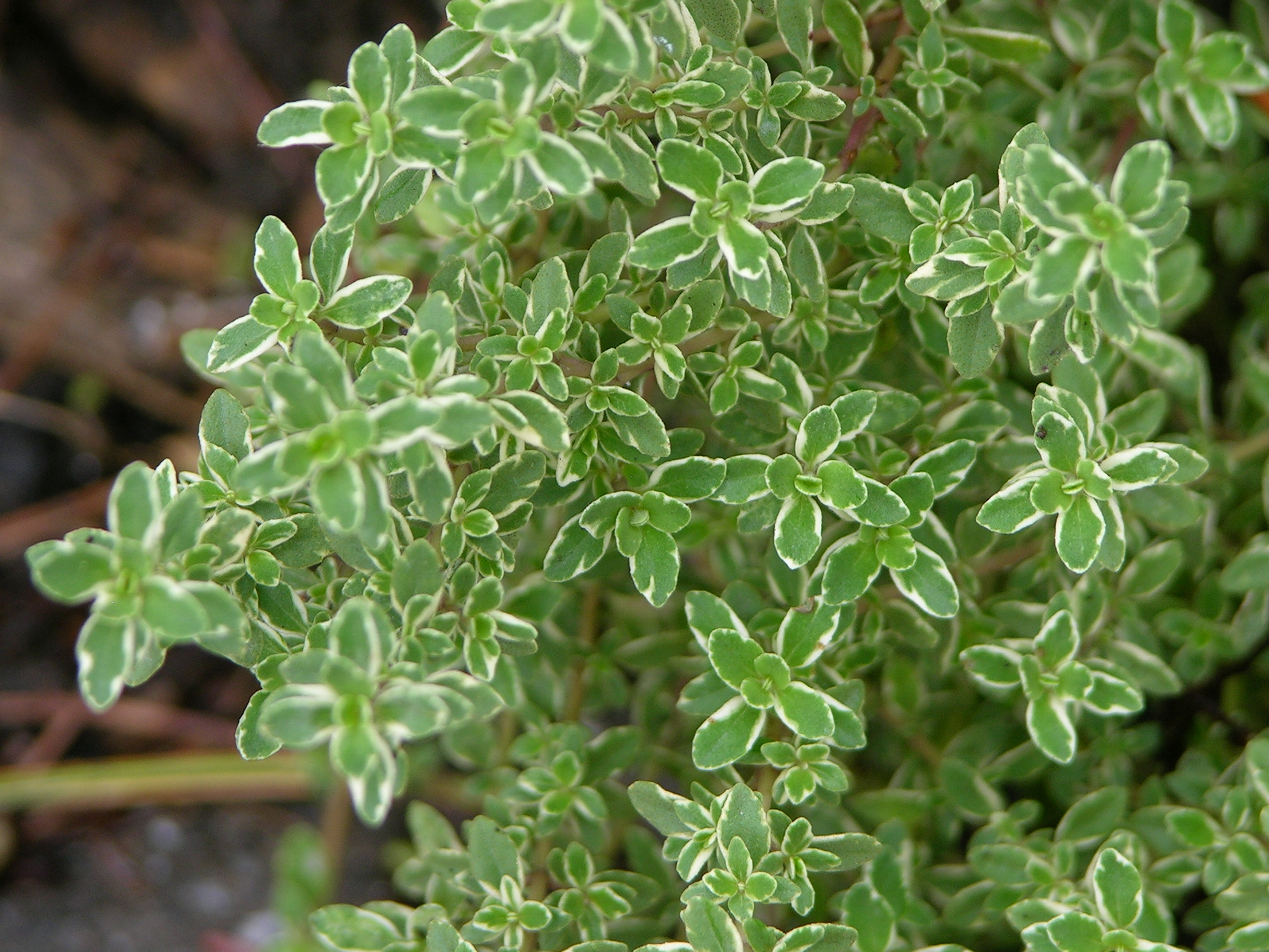 Photograph of the Variegated Lemon Thyme (Thymus × citriodorus 'Variegata'). :*Photo taken at the Tyler Arboretum where it was identified.